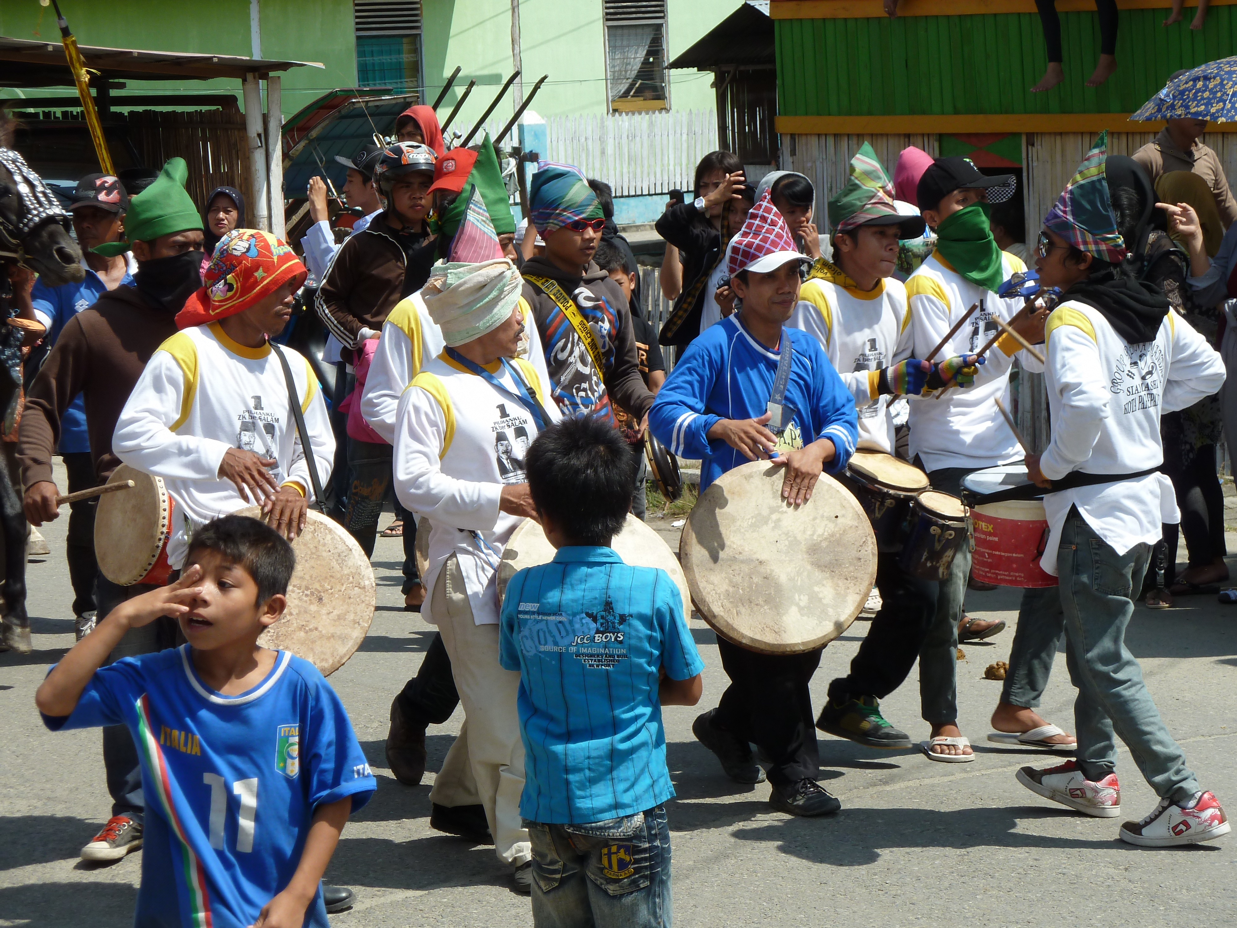 Traditional Aqiqah Street Parade. Majene, West Sulawesi, Indonesia.